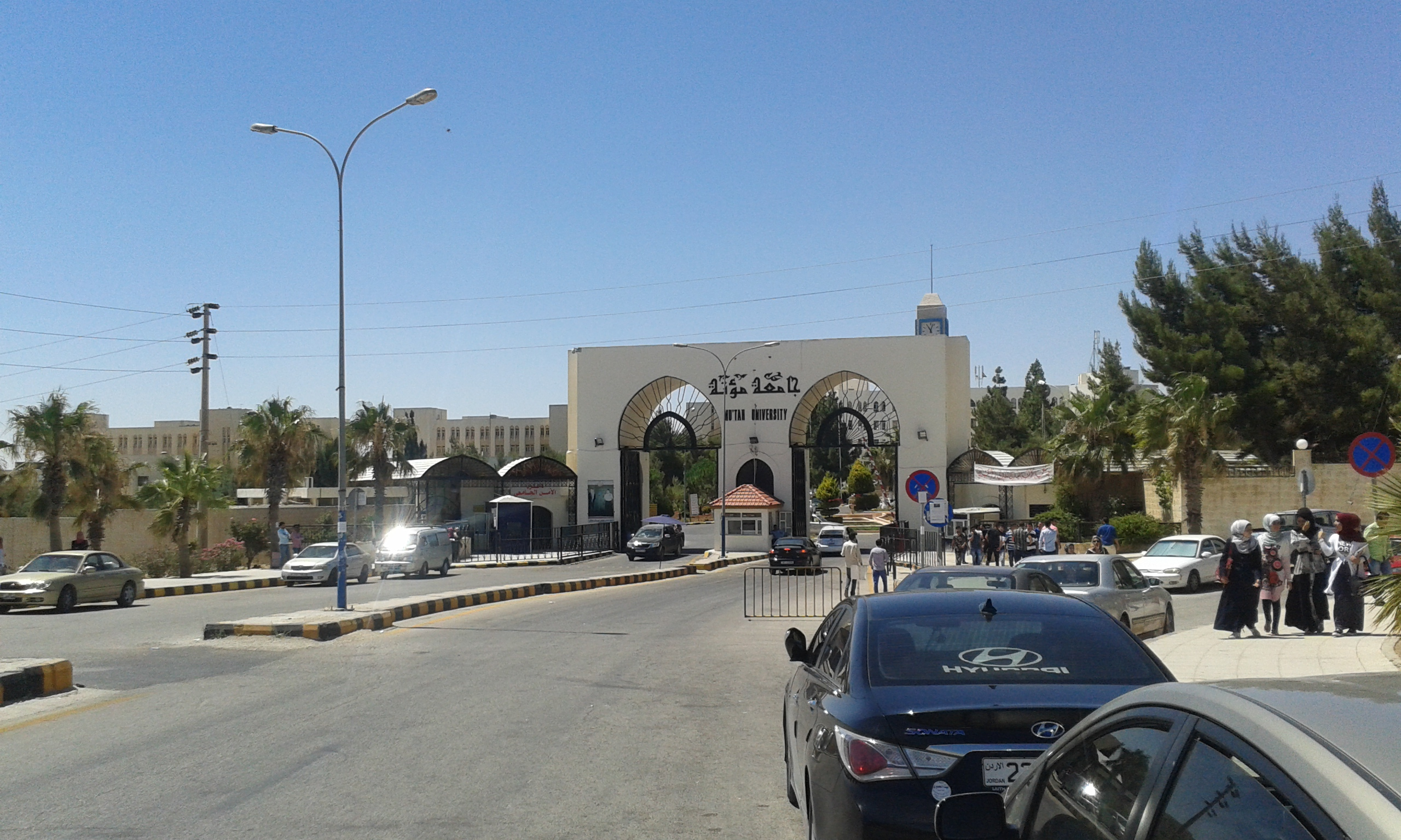 the main gate of Mu'tah University